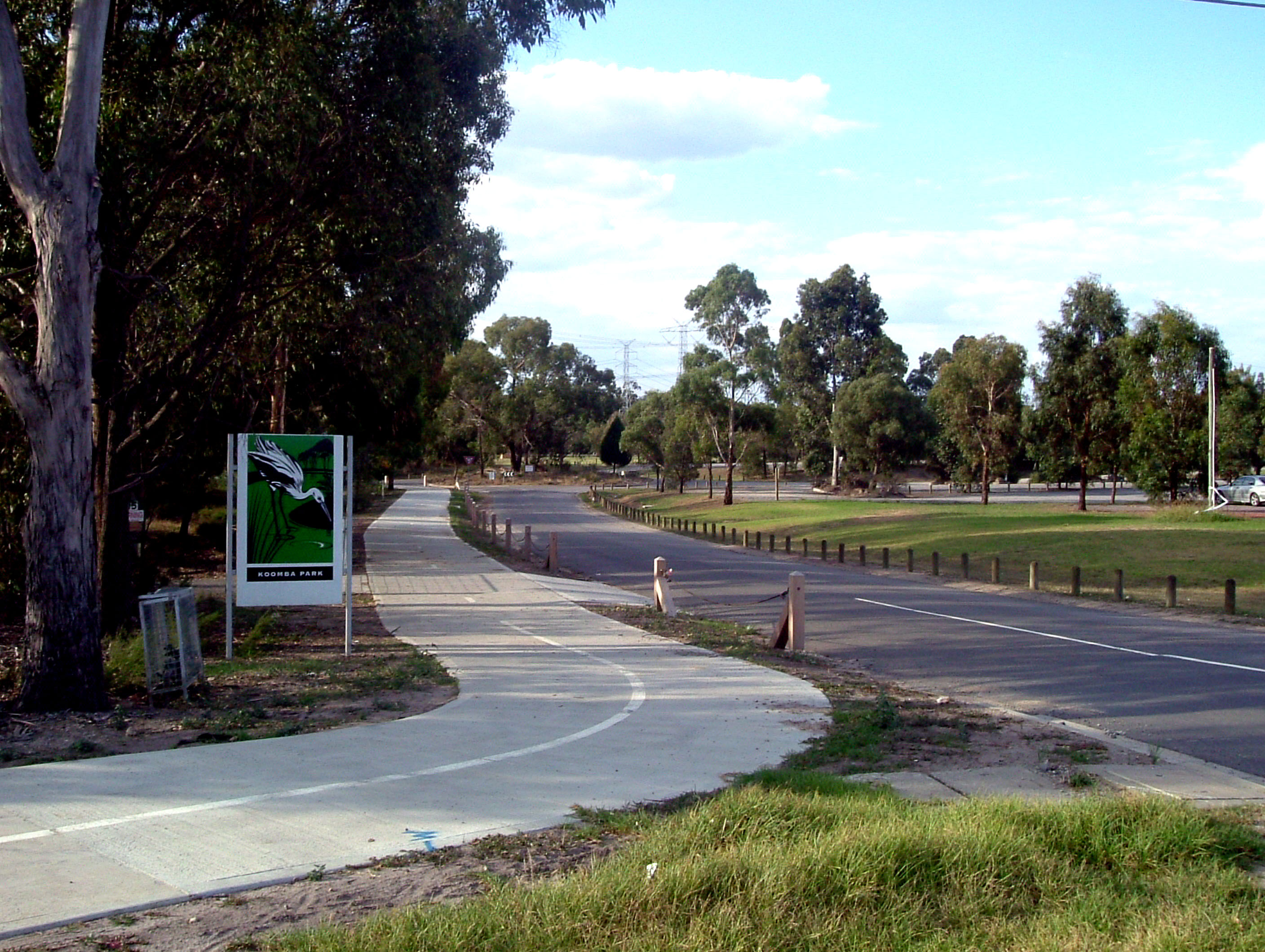 Photograph of the southern entrance of Koomba Park. Can be used for any purpose for any reason.